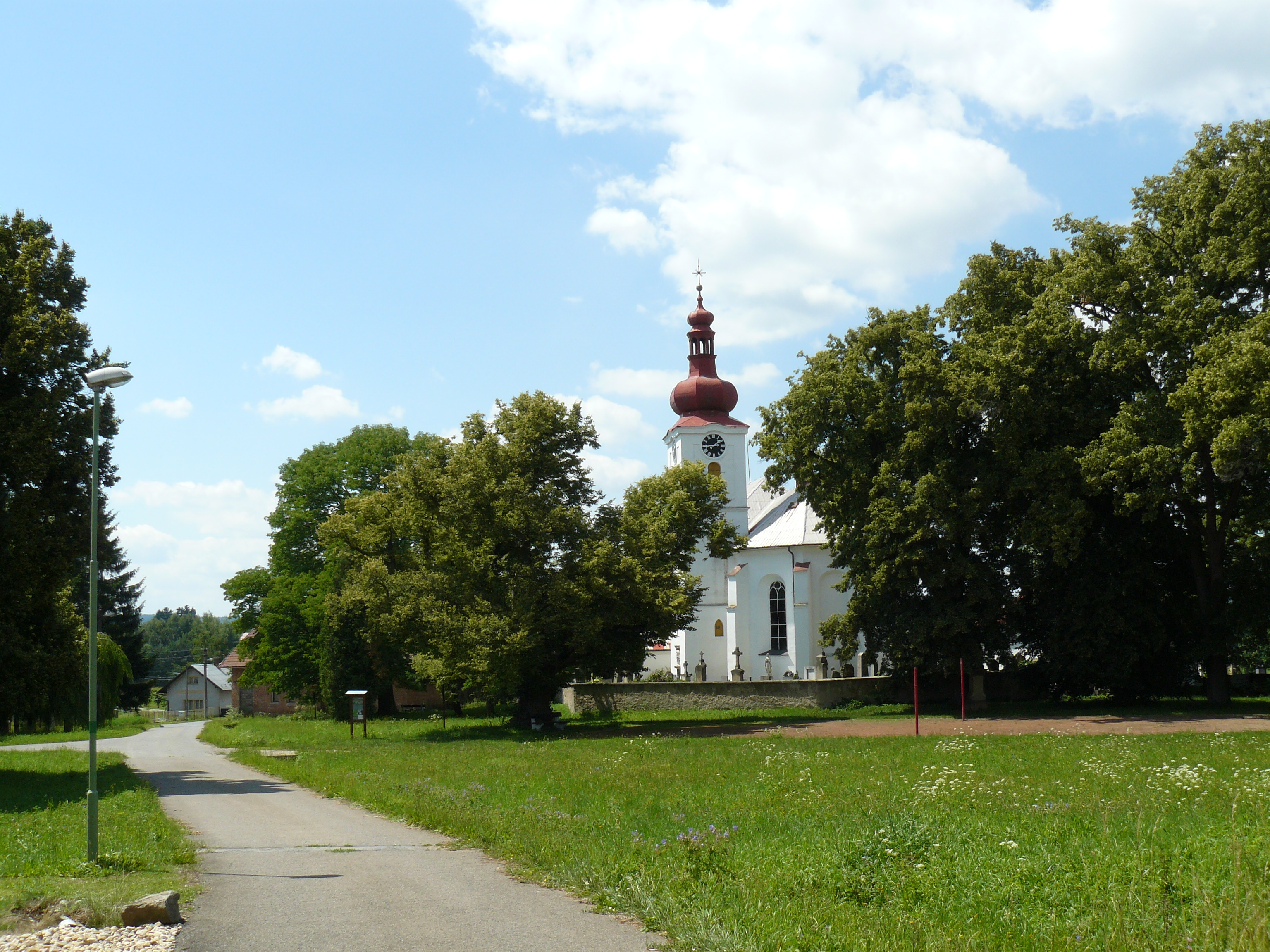 Velesice (Sber) - village in Czech Republic